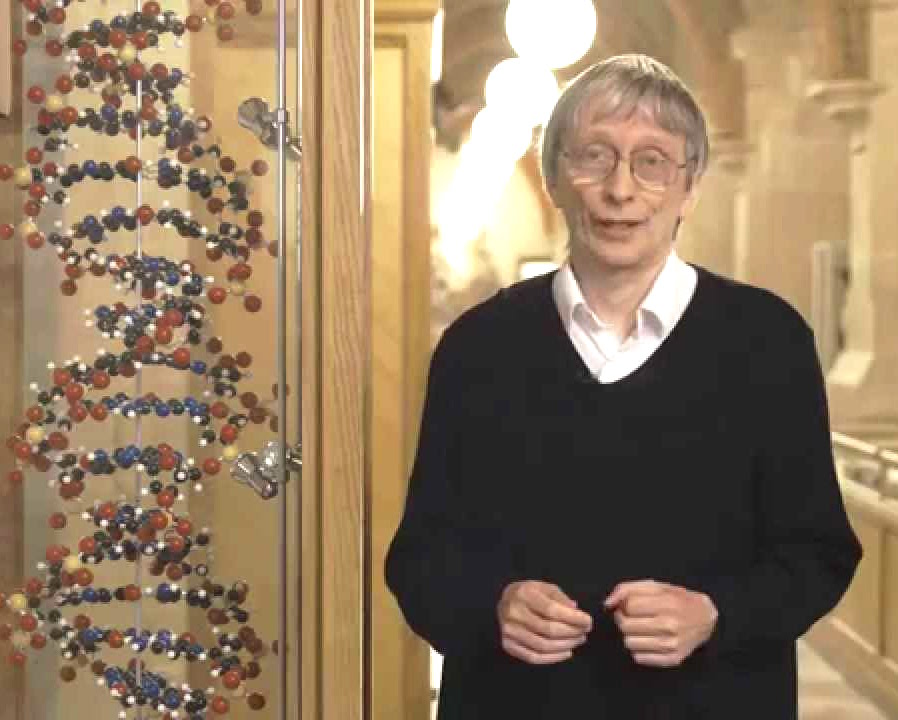 David Deutsch